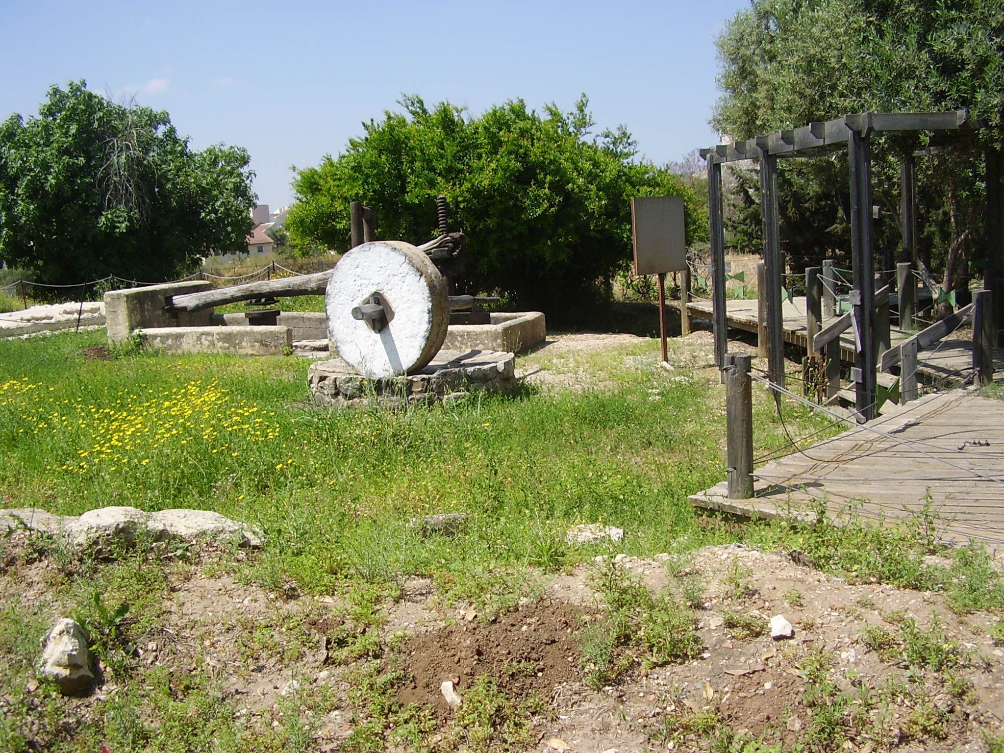 Archeological garden in Kfar-Saba, Israel